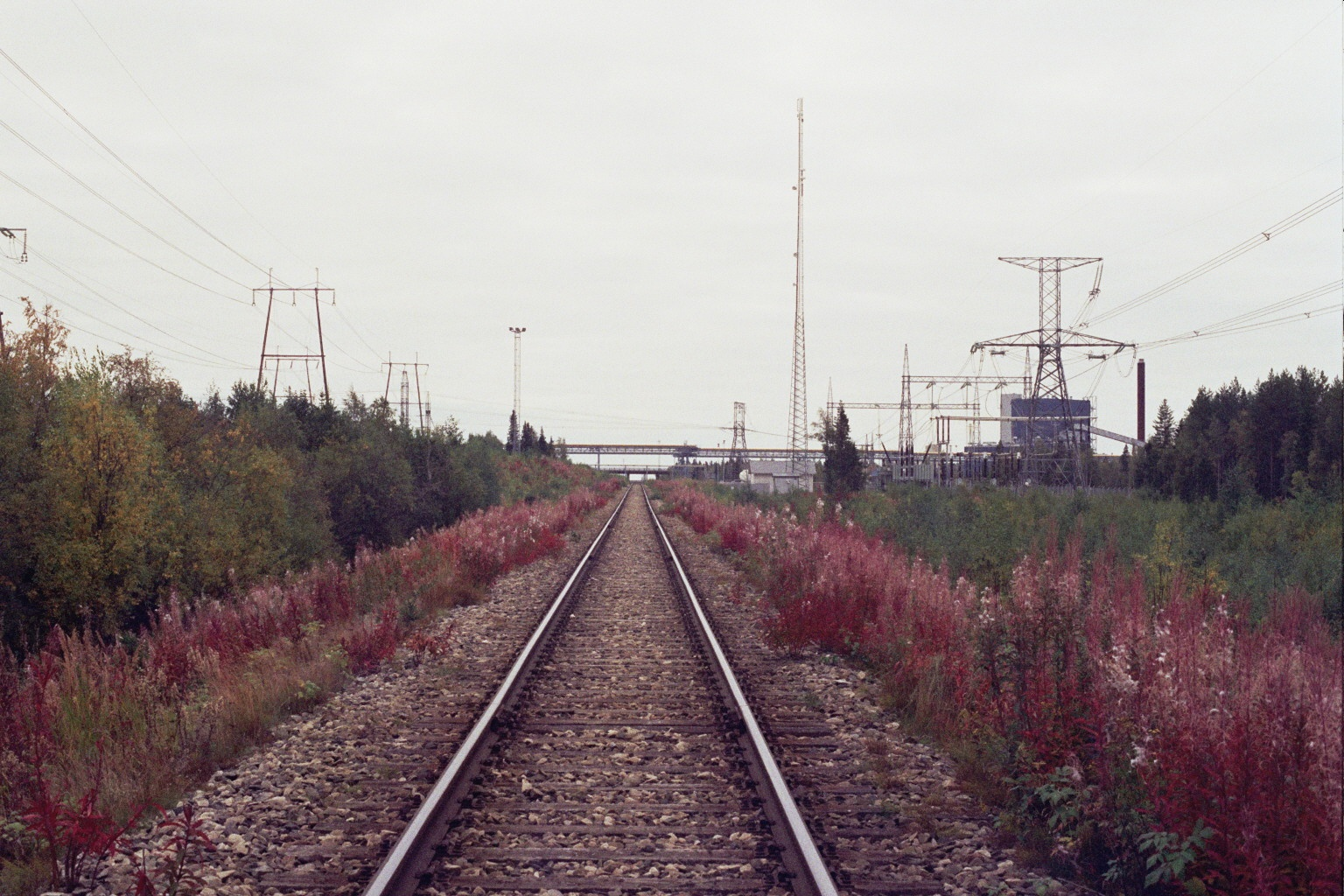 A part of the railway between the harbour of Röyttä and the railyard of Tornio, Finland. The was photo taken near the steel factory of Outokumpu.